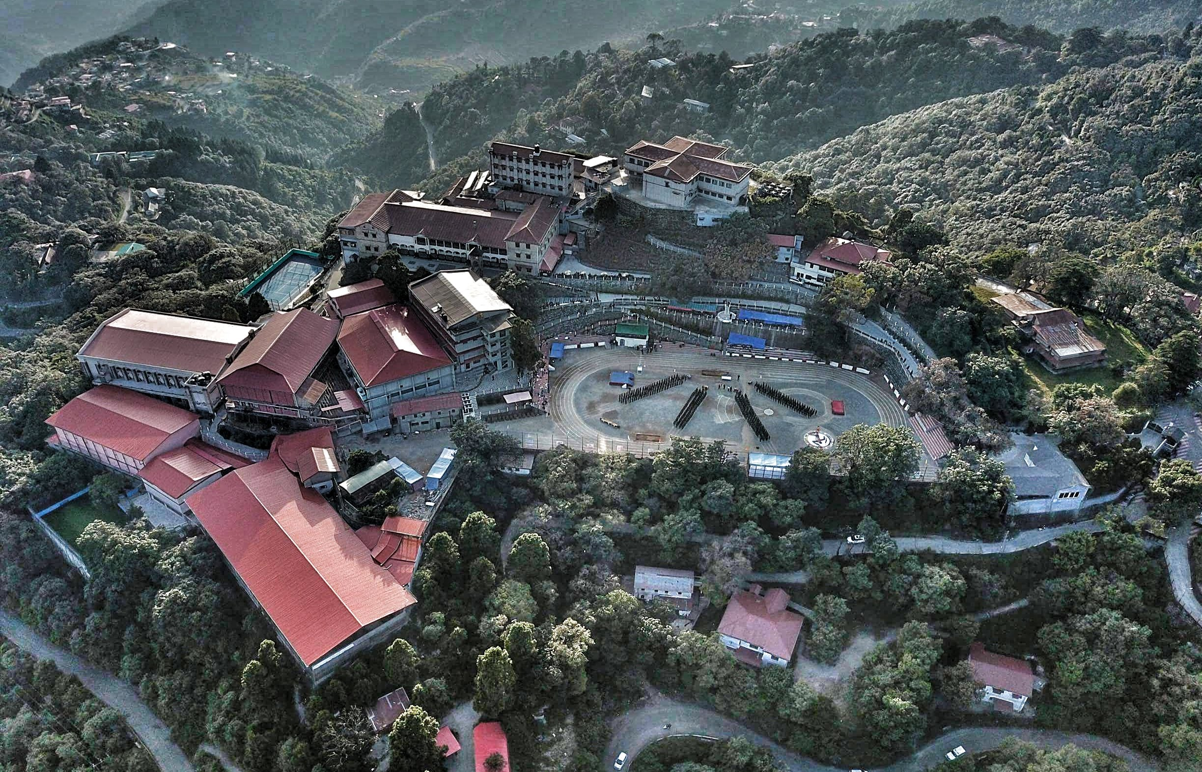 Wynberg Allen School from drone. Only Allen visible in the picture. Sports Day 2018.